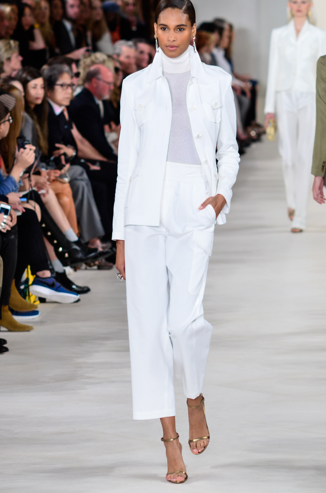 Cindy Bruna walking the Ralph Lauren Spring/Summer 2015 fashion show.